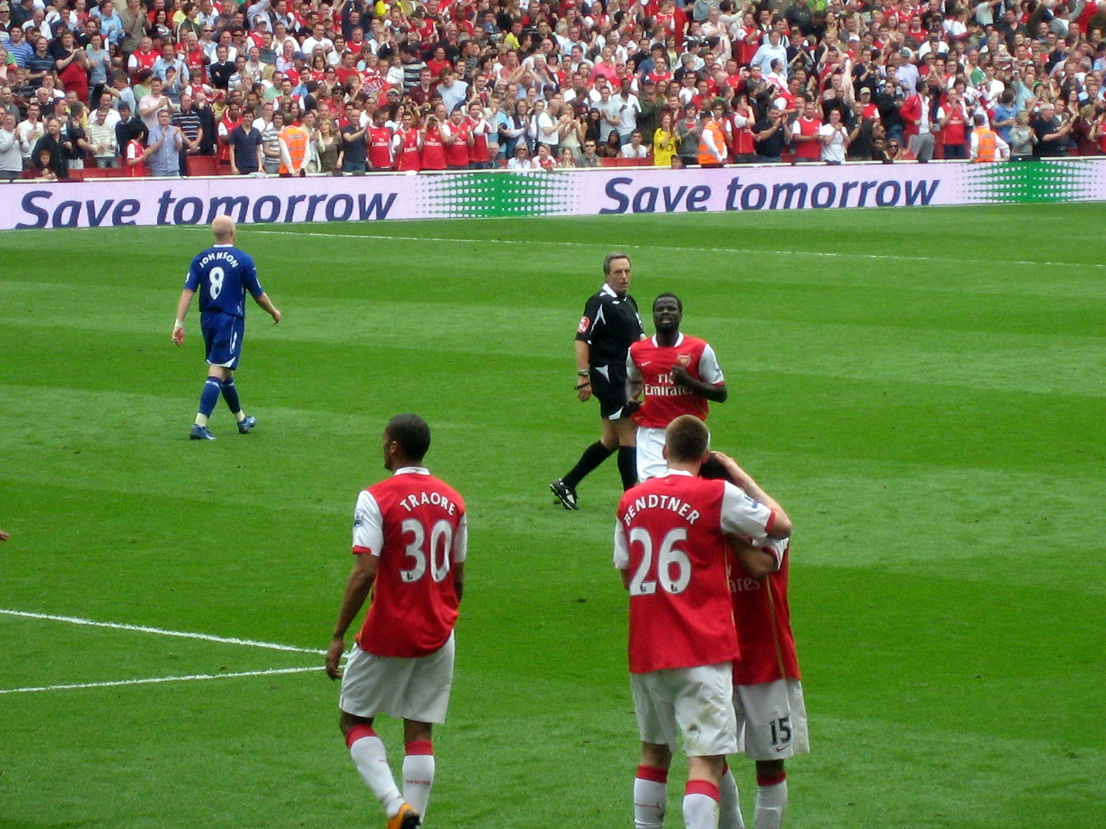 Nicklas Bendtner celebrate a goal on 4 May, 2008Nicklas Bendtner Scores